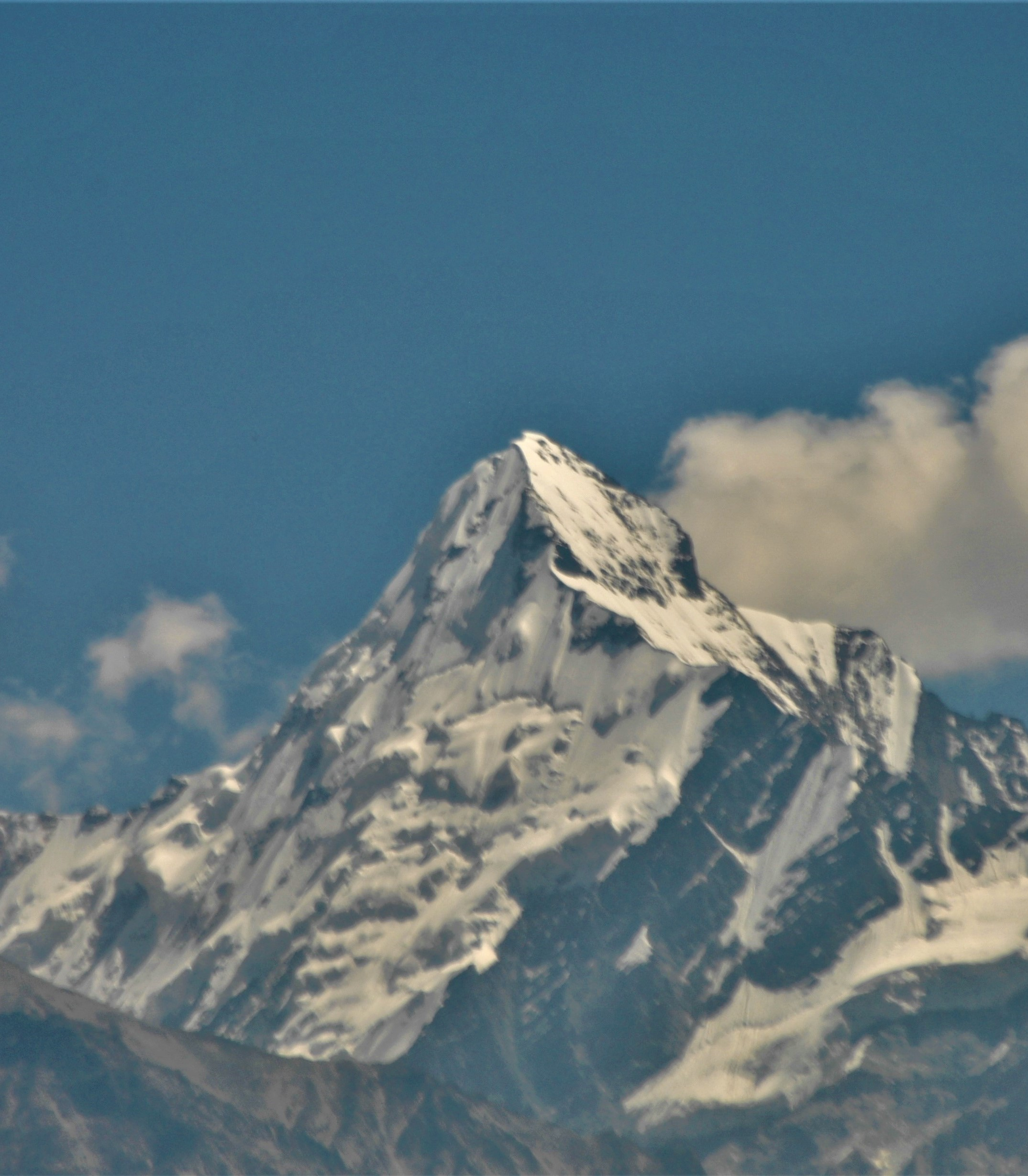 This picture was taken during Kalindi khal trek.Mt Sudarshan